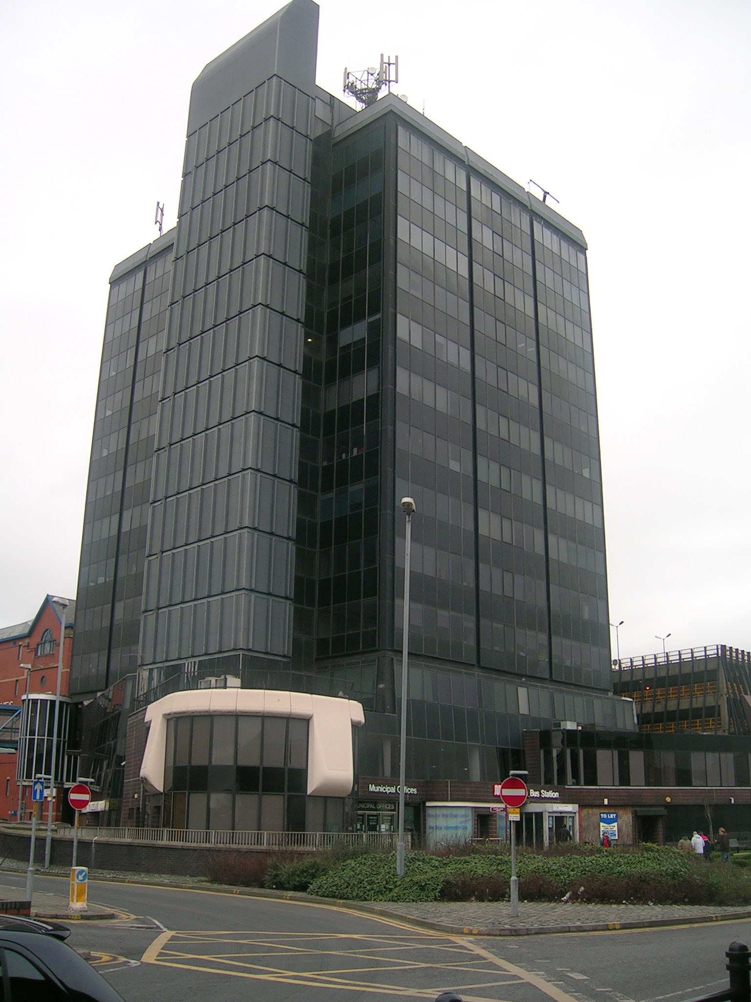 The Municipal Offices of the Metropolitan Borough of Rochdale, in central Rochdale, Greater Manchester, England. The GMPTE Travelshop in Rochdale and the Rochdale Metropolitan Borough Council is based here.